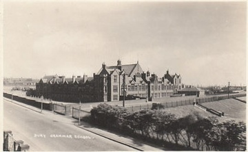 An historic postcard of the 1906 building showing the playing fields across Bridge St on which the boys' school now stands.